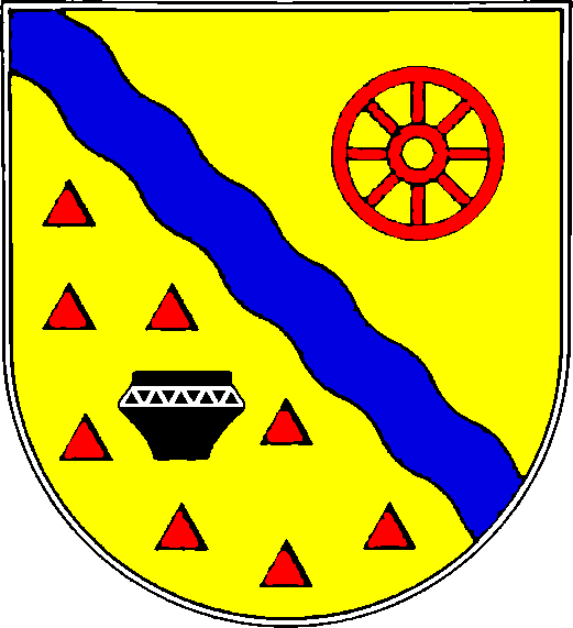 Coat of arms of the municipality Osterrönfeld in Schleswig-Holstein, Germany.